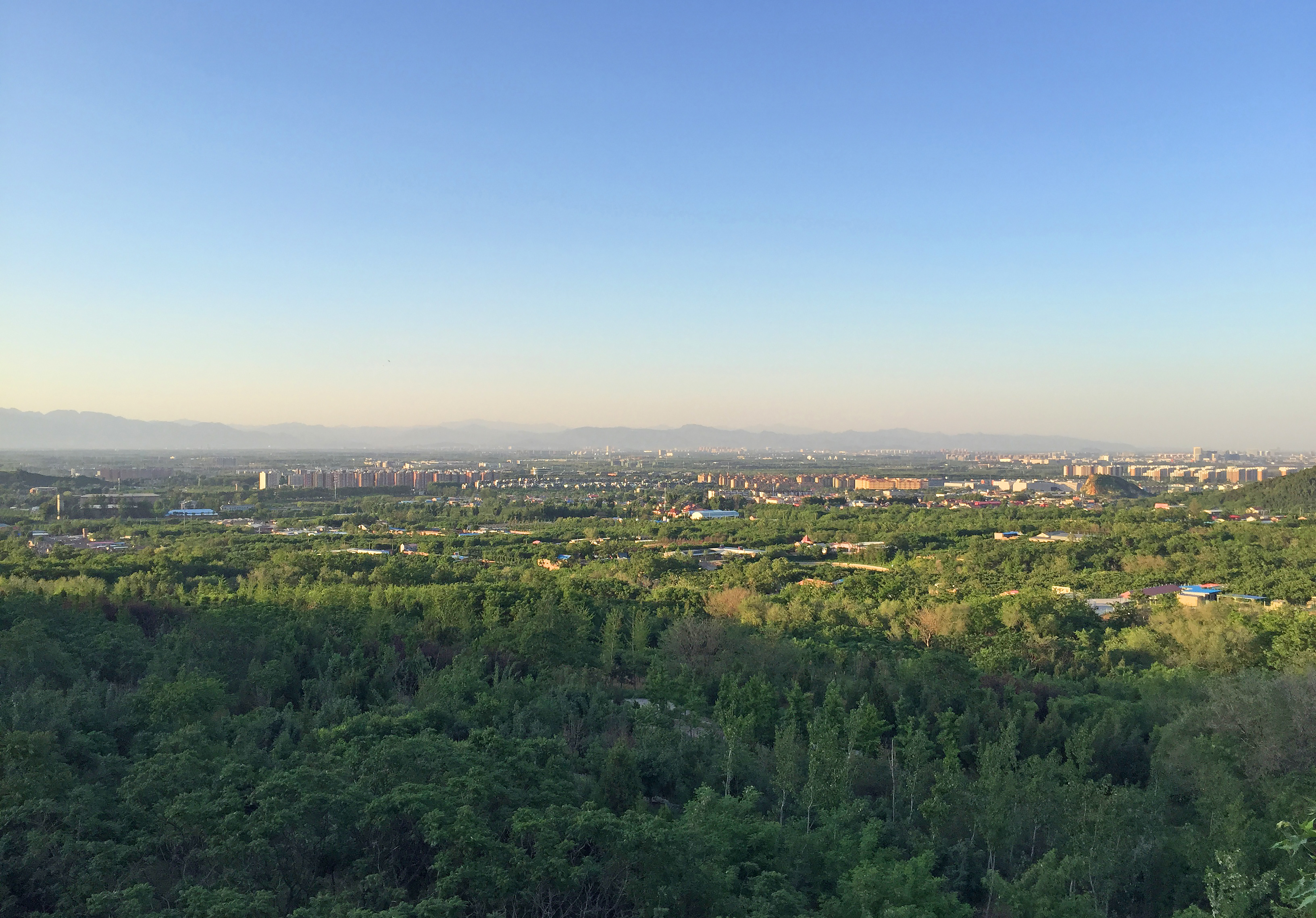 Breathtaking view from the western hills.